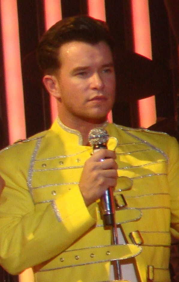 Photograph of Irish singer Stephen Gately (Boyzone), 2009.